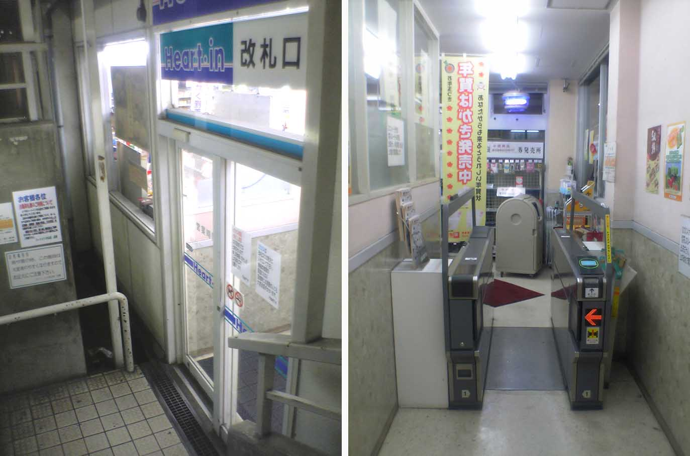 An example of an uninhabited ticket gate machine. The Moriyama station of JR West Japan. Although the usual wicket was located from the former at this station, the uninhabited wicket was recently extended.(however, only one set is extended) Date: Nov. 11, 2005 Vineyard user:OAS